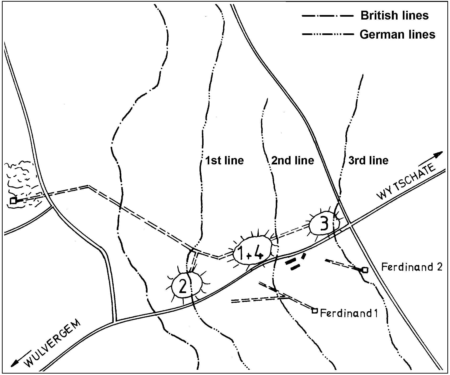 Plan of the mines at Kruisstraat, part of the mines placed by the tunnelling companies of the Royal Engineers in the Battle of Messines (1917). This drawing is based on the plans published in Roger Lampaert, De Mijnenoorlog in Vlaanderen 1914–1918, Roesbrugge/Belgium (Drukkerij Schoonaert) 1989.